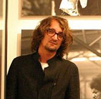 Dutch guitarist Dennis van Leeuwen